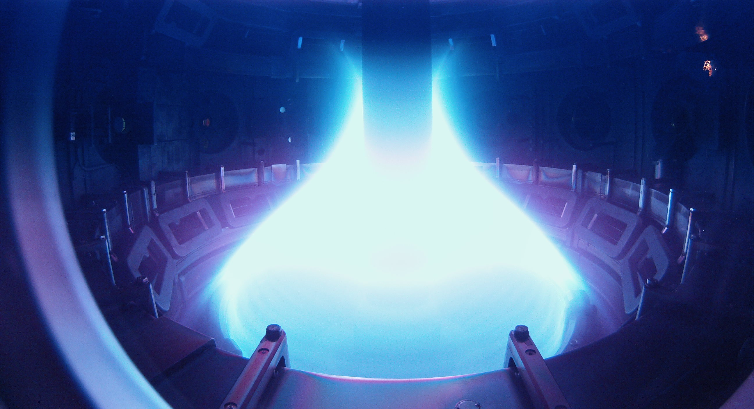 Mega Ampere Spherical Tokamak (MAST) in Culham, Oxfordshire, UK. Bright glowing plasma inside the vessel.